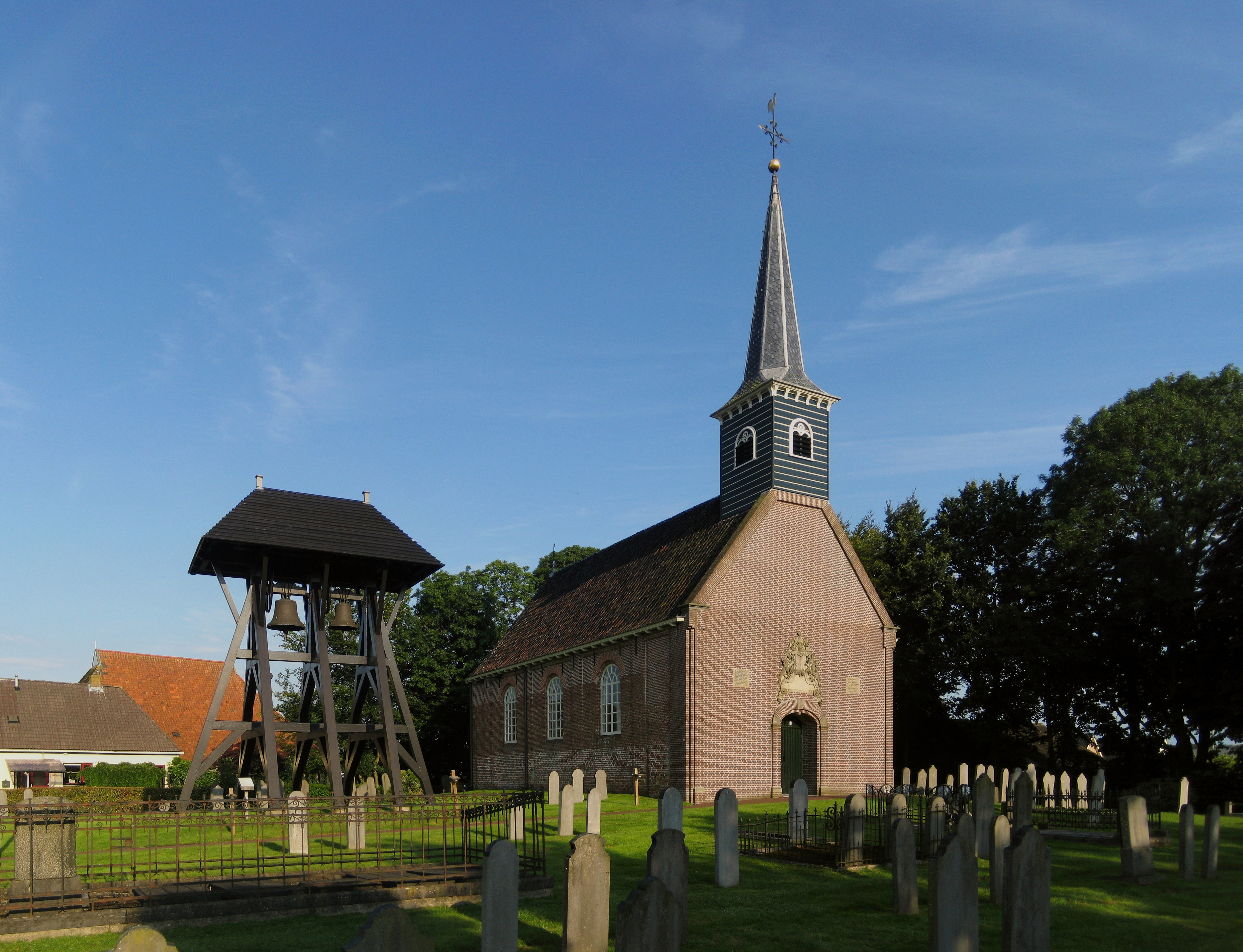 The klokkenstoel and reformed church of Donkerbroek, a village in Ooststellingwerf, a municipality in the Dutch province of Fryslân.